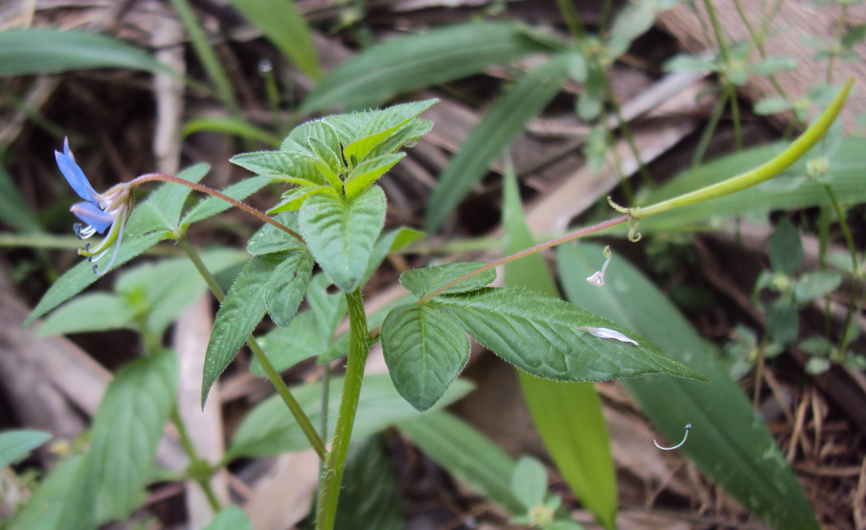 Flowers